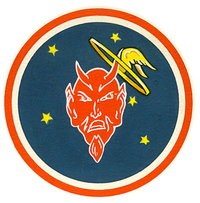 431st Test and Evaluation Squadron patch